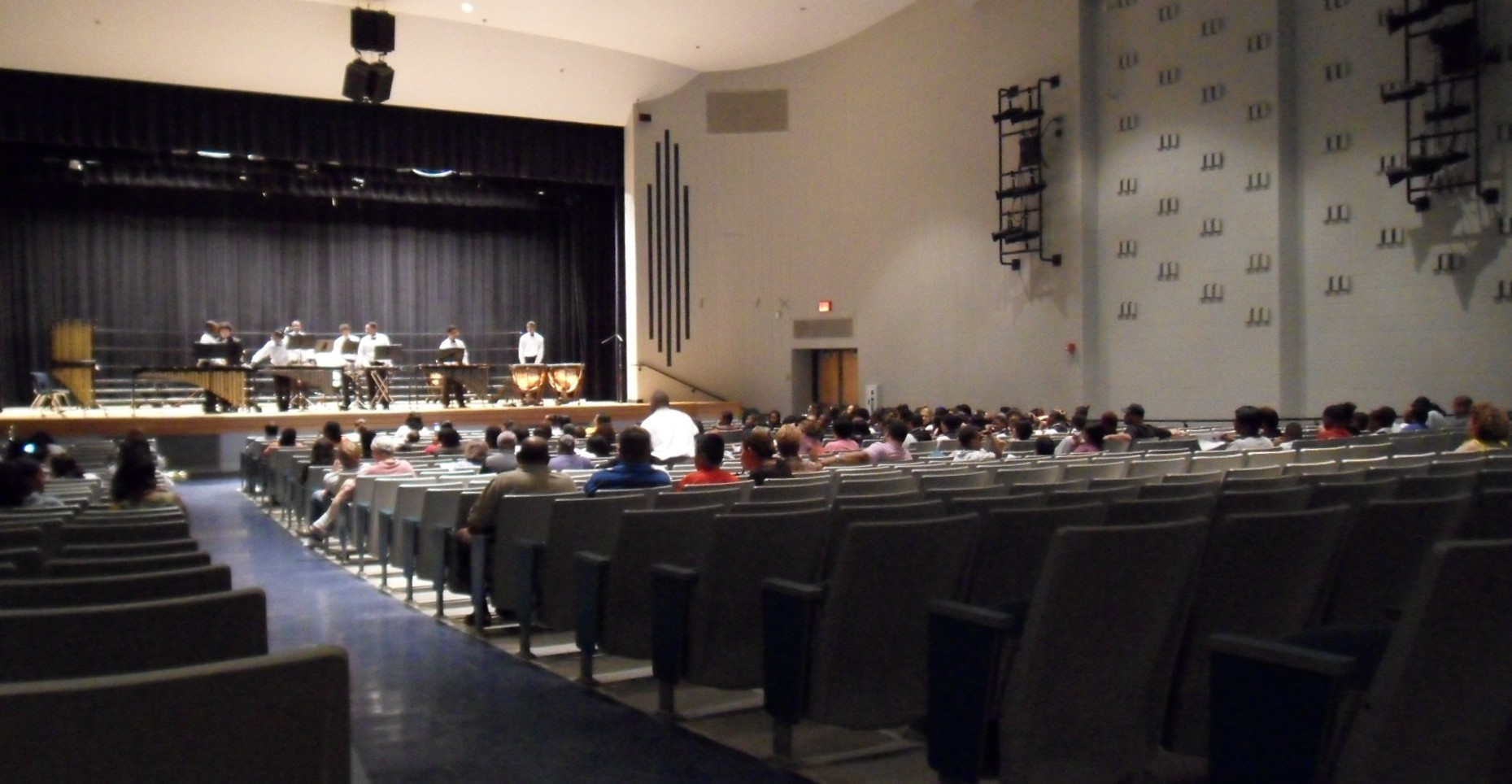 The interior of the 1,100-seat auditorium at Northwestern High School in Hyattsville, Maryland. This photo was taken before the start of the annual Spring Concert.